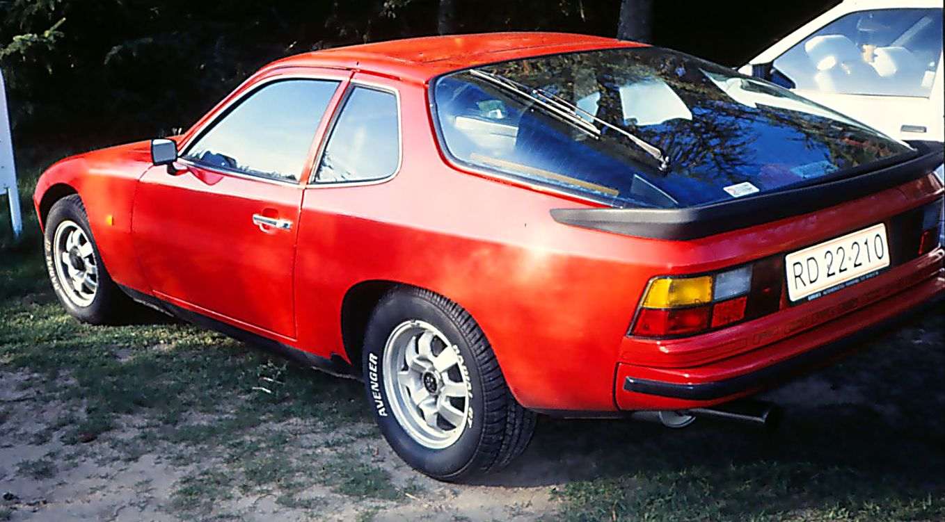 Porsche 924 Targa, from 1976. Seen in Frederikshavn, Denmark. May 12, 1995.